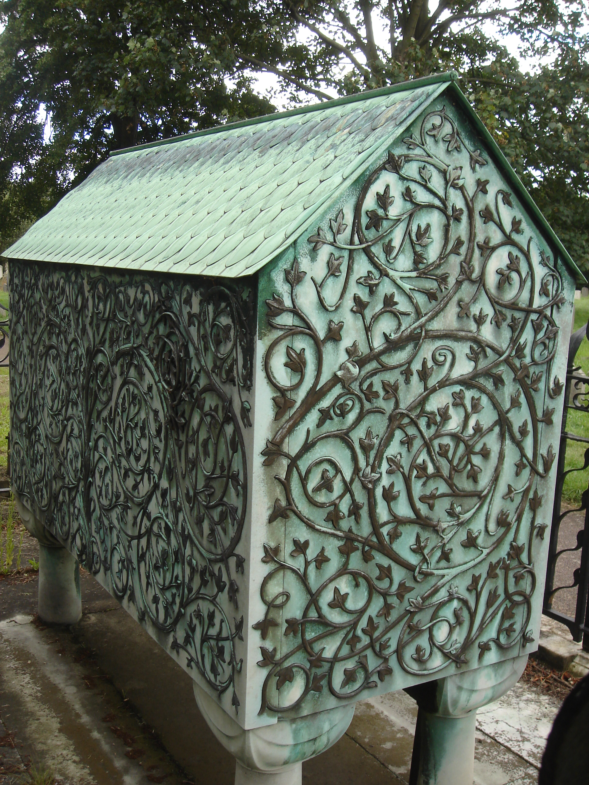 Tomb of Frederick Richards Leyland, Brompton Cemetery